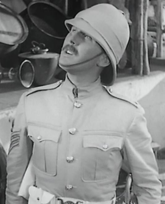 Robert Coote in Gunga Din - trailer (cropped screenshot)